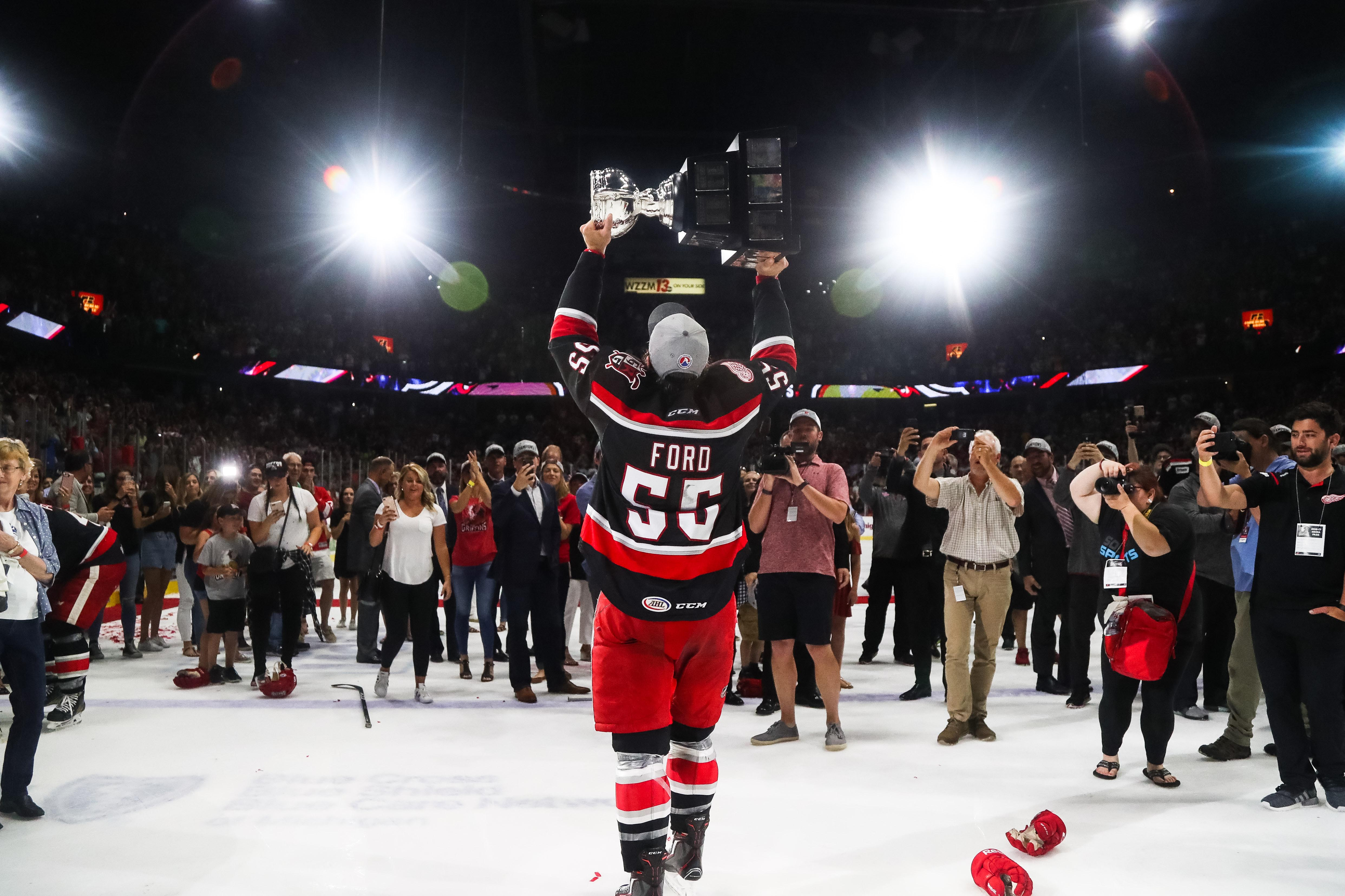 Photo: Sam Iannamico